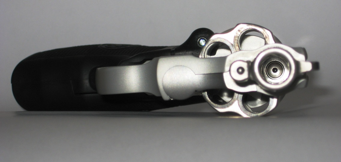 Bore and laser sight view of a Smith & Wesson Model 642CT Revolver. From